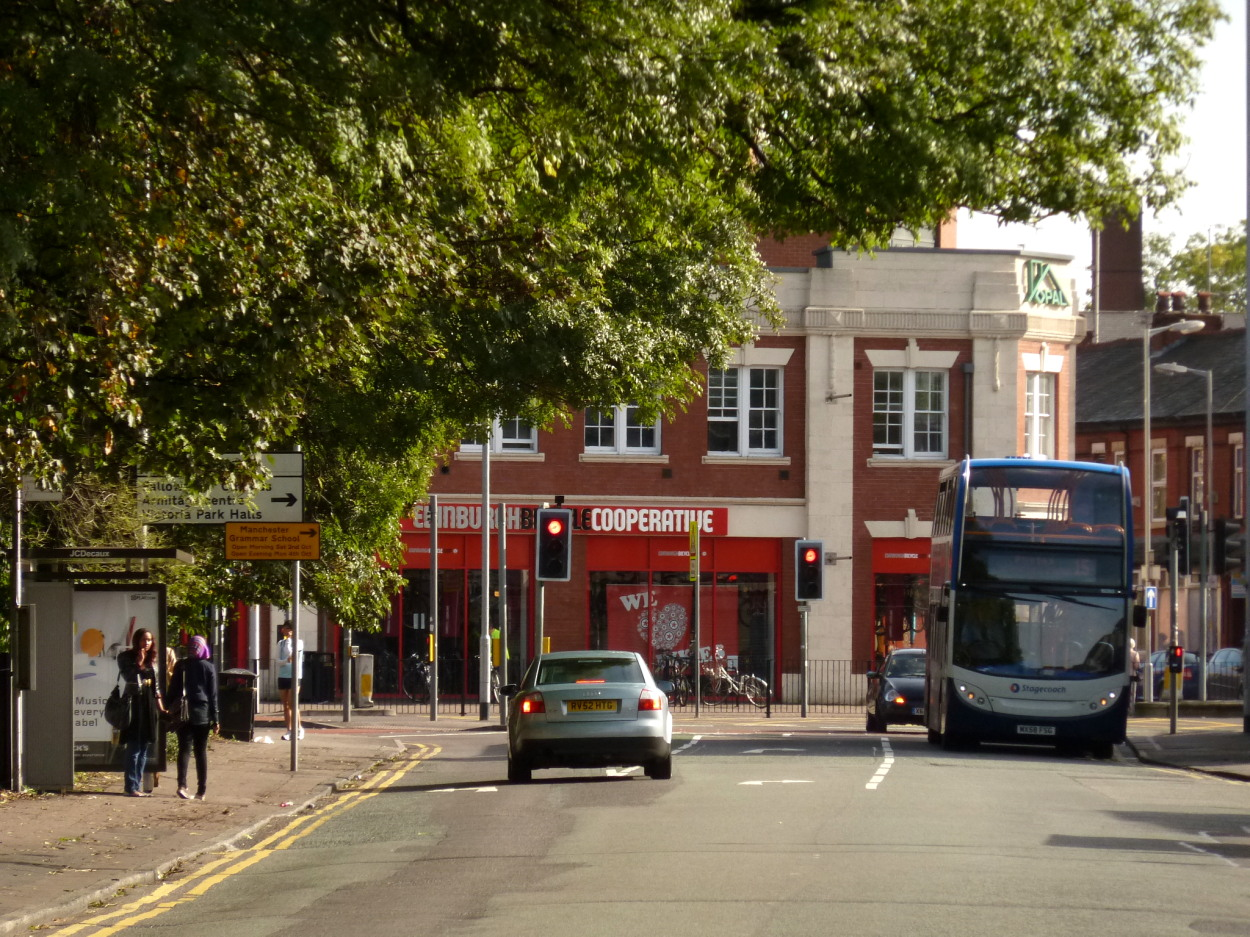 Moss Lane East in Moss Side, looking towards Rusholme and the Edniburgh Bicycle Cooperative, Manchester, UK